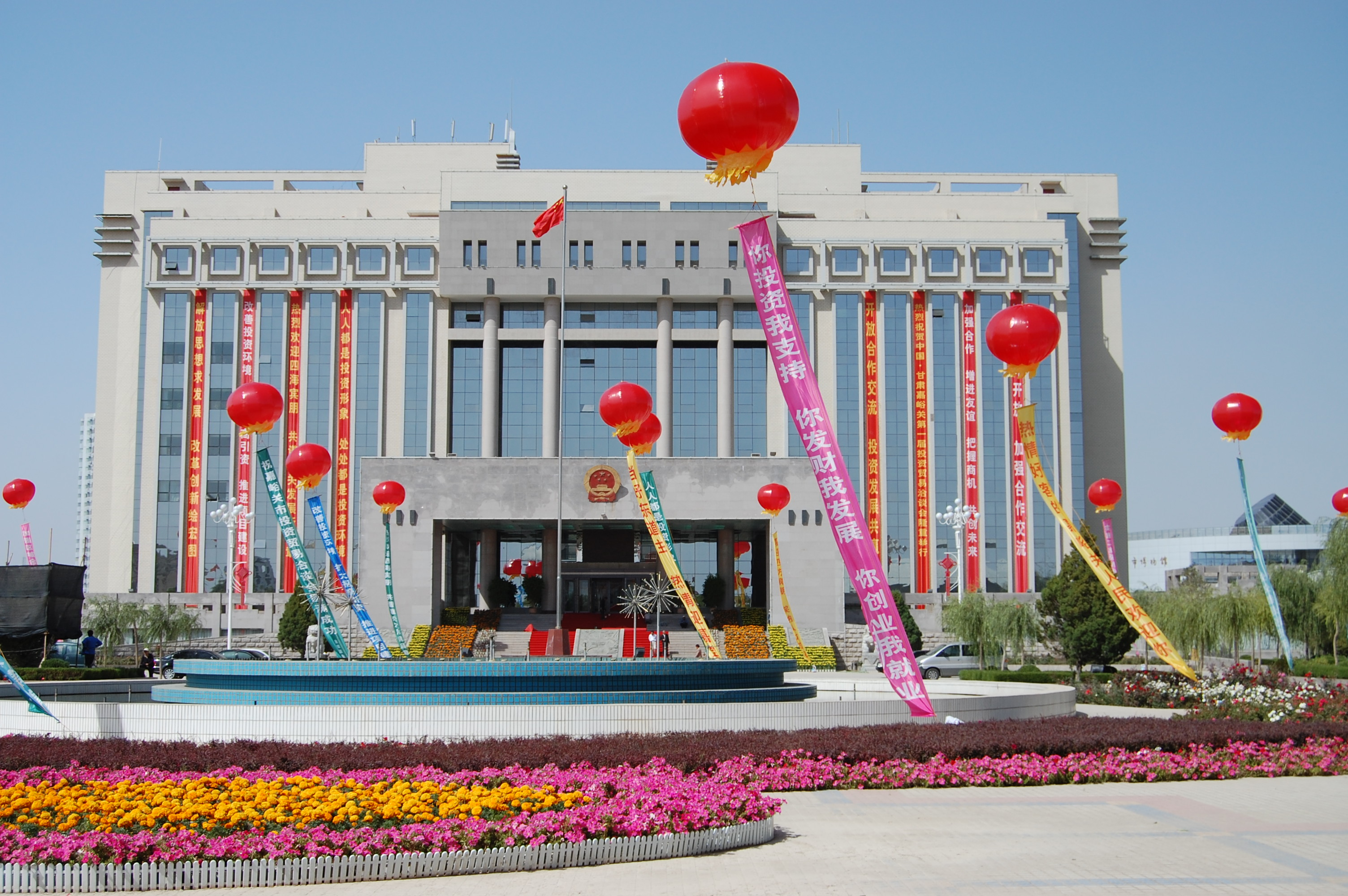 Town Hall of Jiayuguan